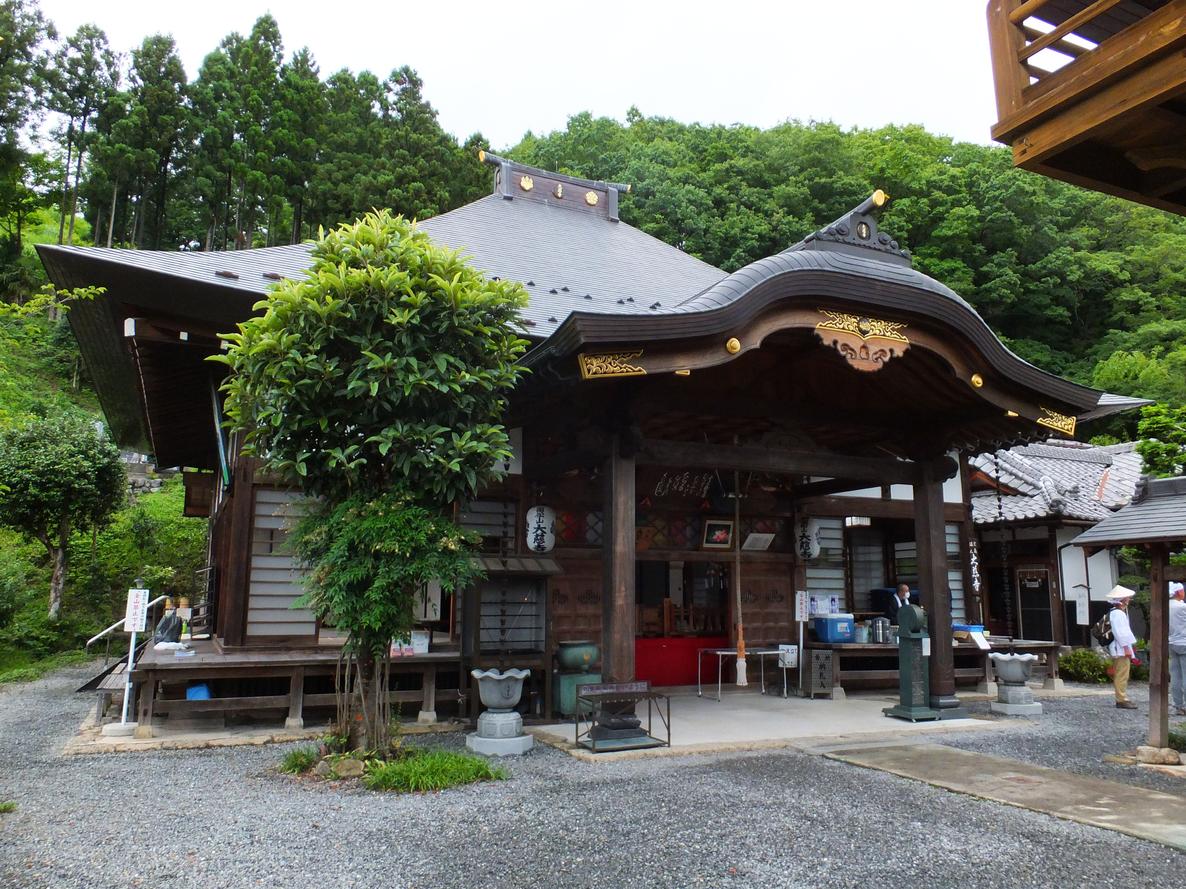 Daiji-ji temple in Yokoze, Saitama